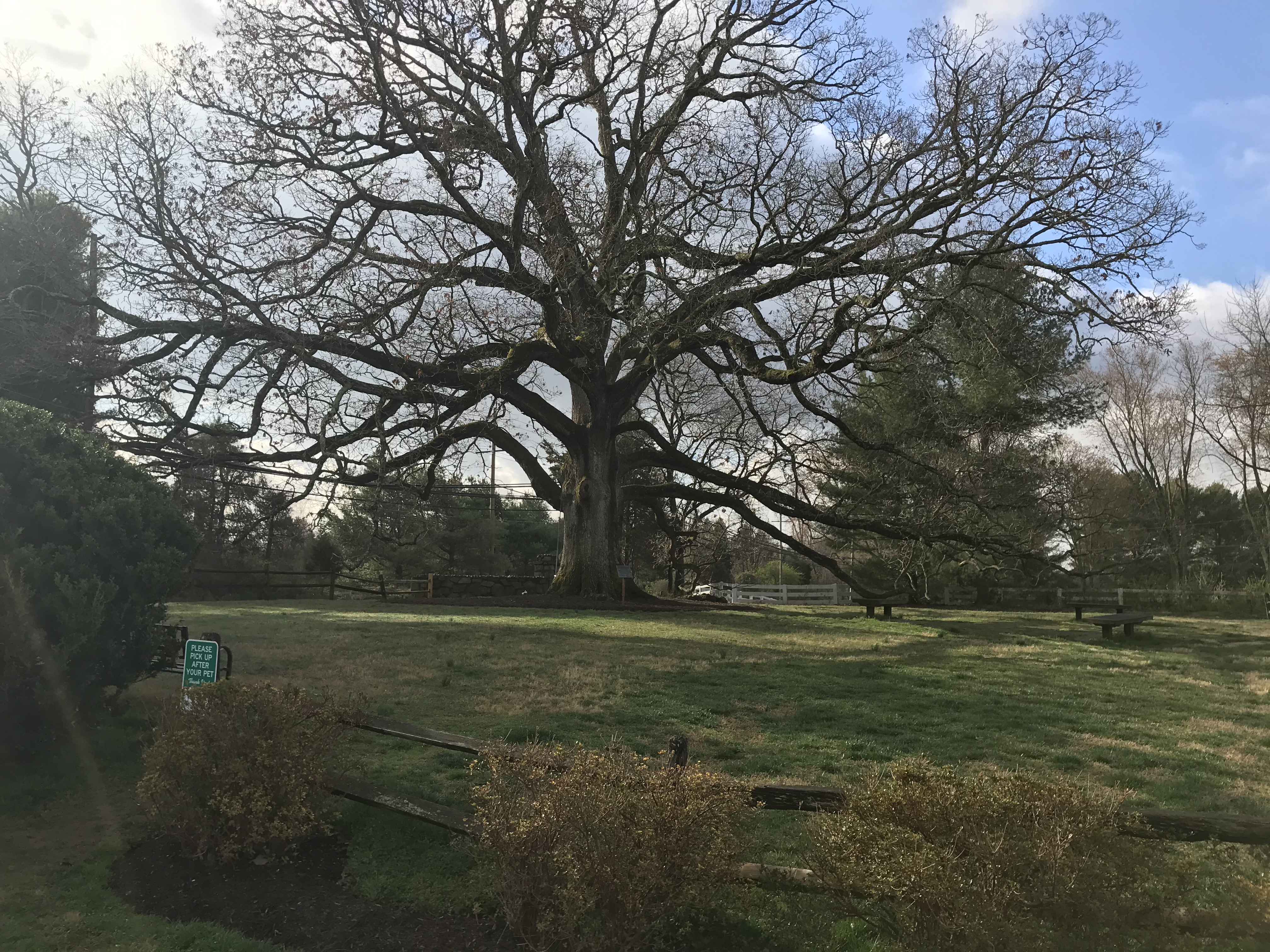 Historic Travilah Oak in Travilah, Maryland